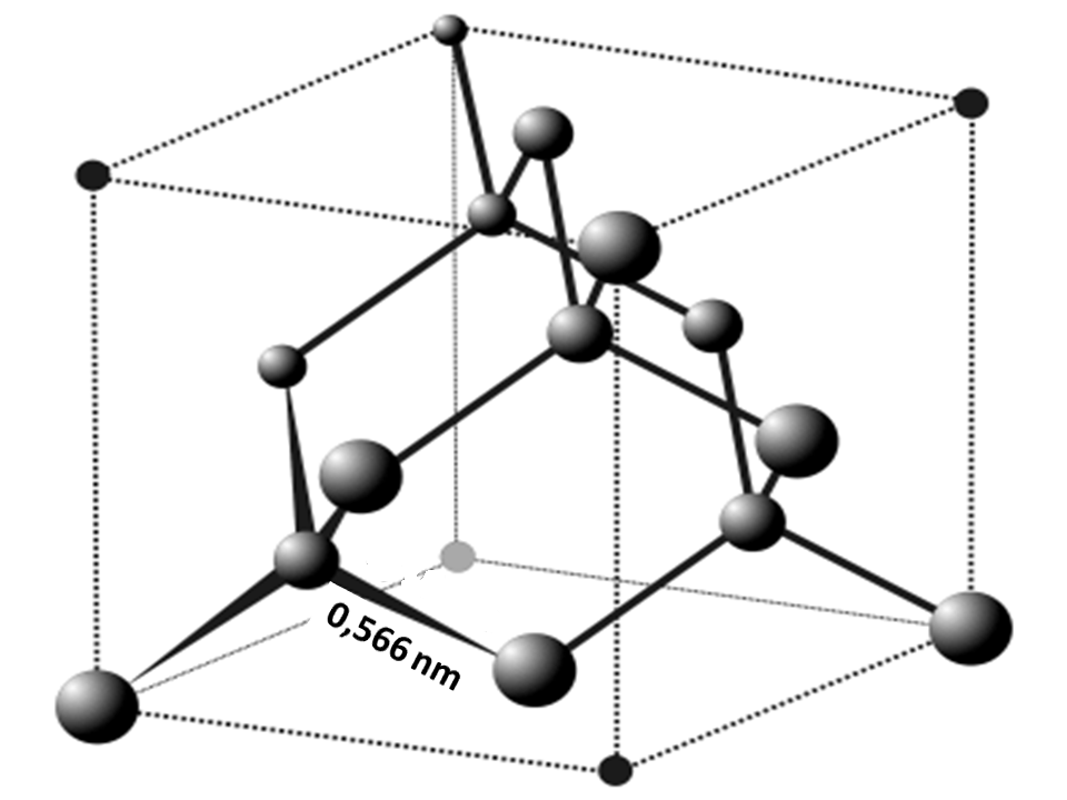 Ge crystal